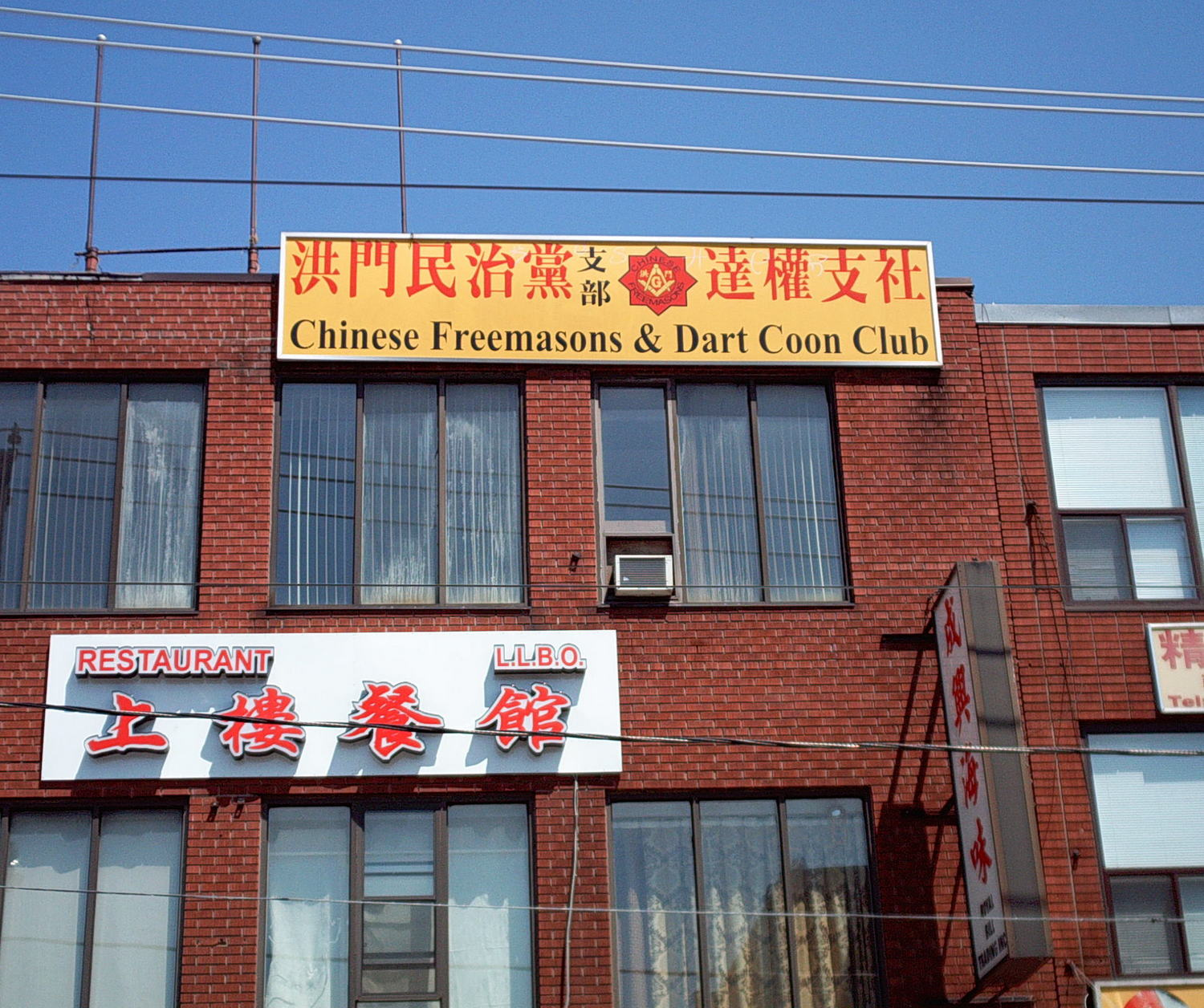 Chinese Freemasons and Dart Coon Club, at 436 Dundas St W, Toronto, ON